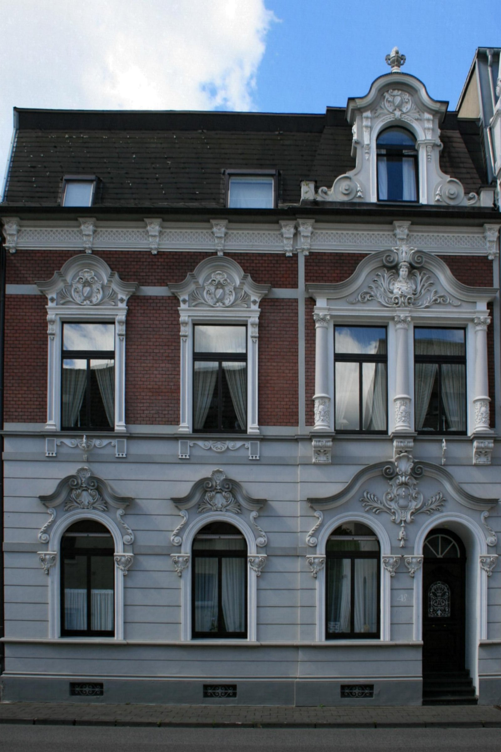 Cultural heritage monument No. V 003 in Mönchengladbach